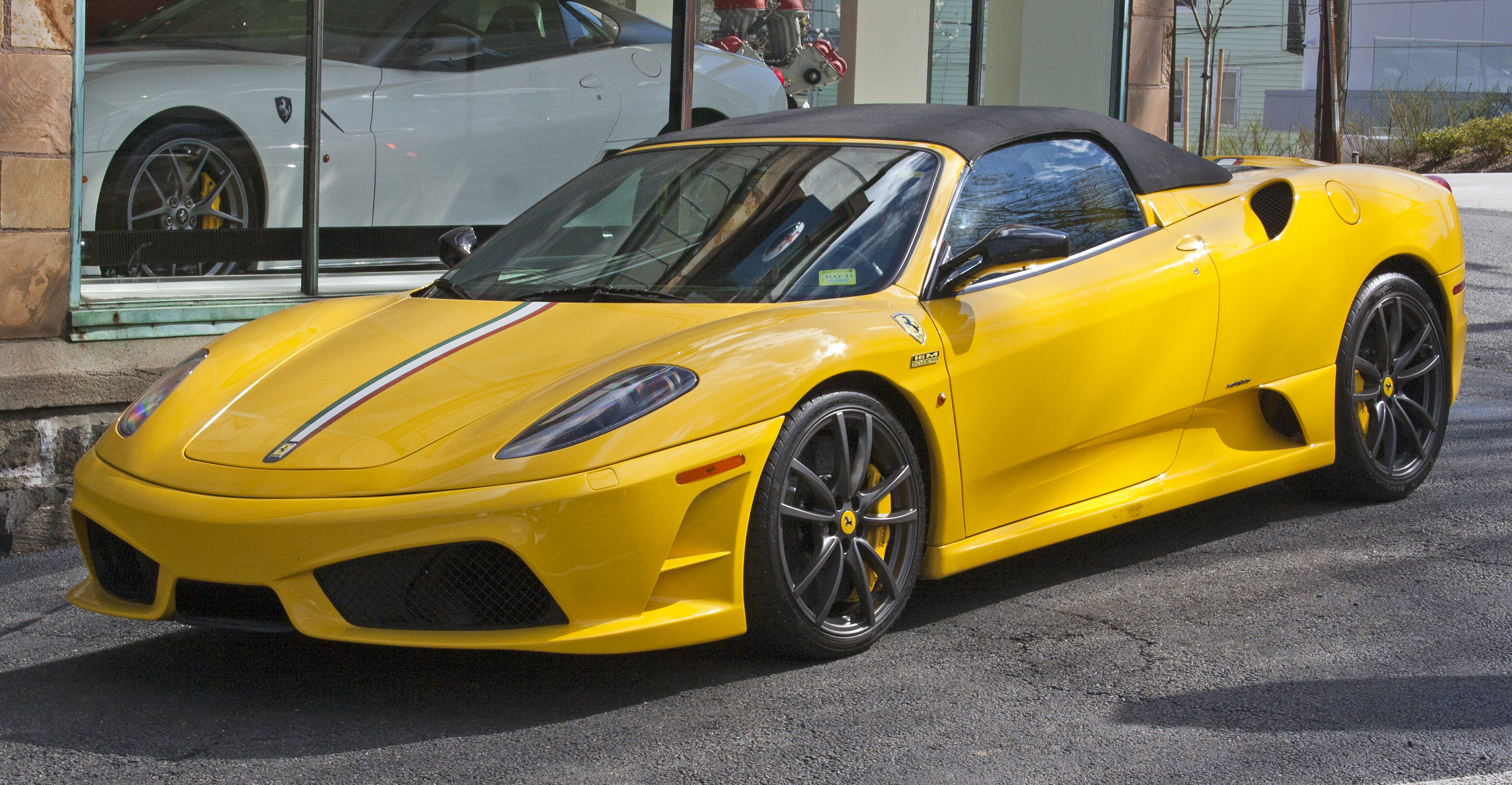 2009 Ferrari F430 Spider 16M, a series of 499 released to celebrate Ferrari's sixteenth Formula 1 World Championship.